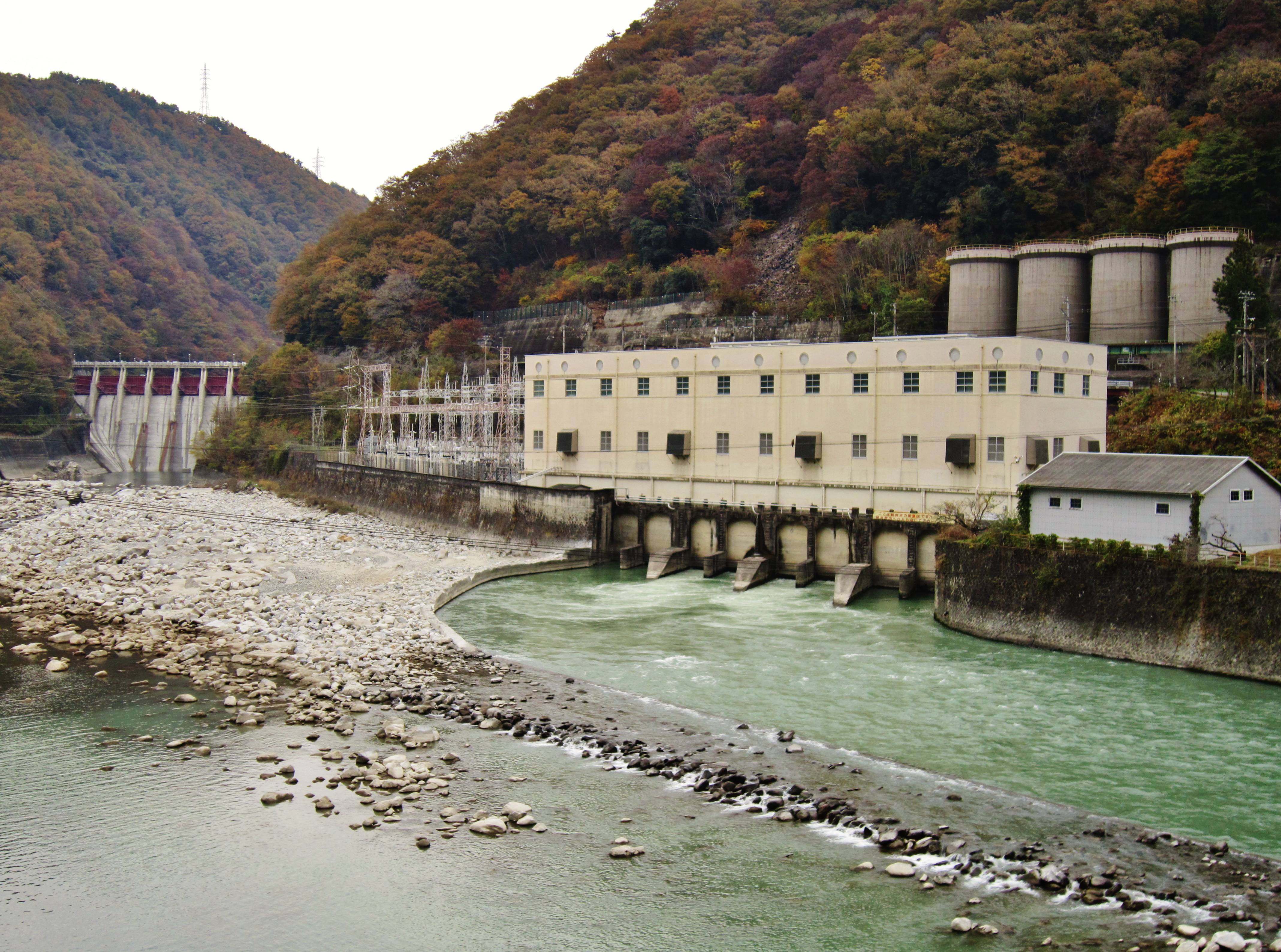 Yasuoka Dam and Yasuoka power station.